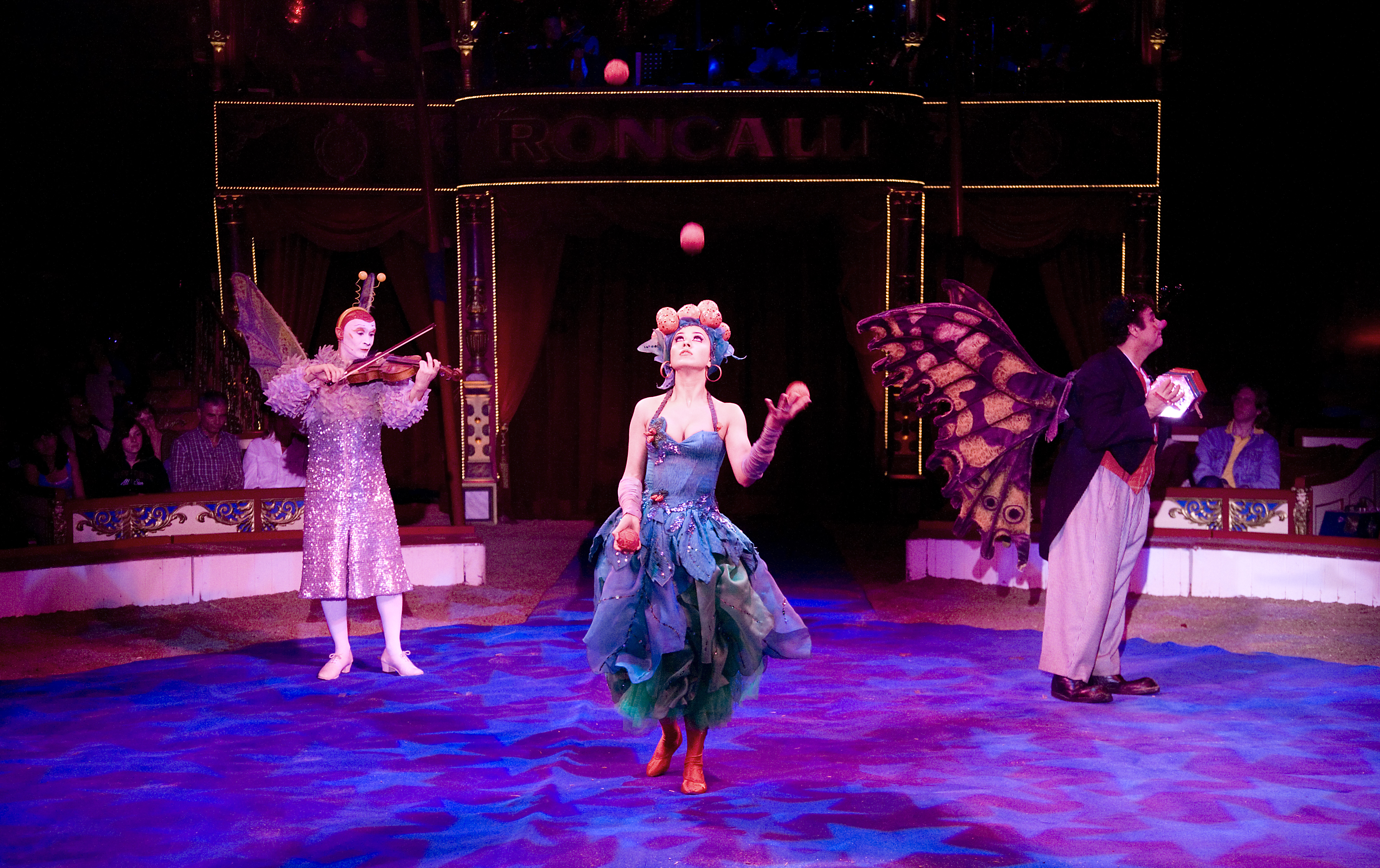 Two clown musicians and a pretty juggler. Circus Roncalli. Munich, Germany